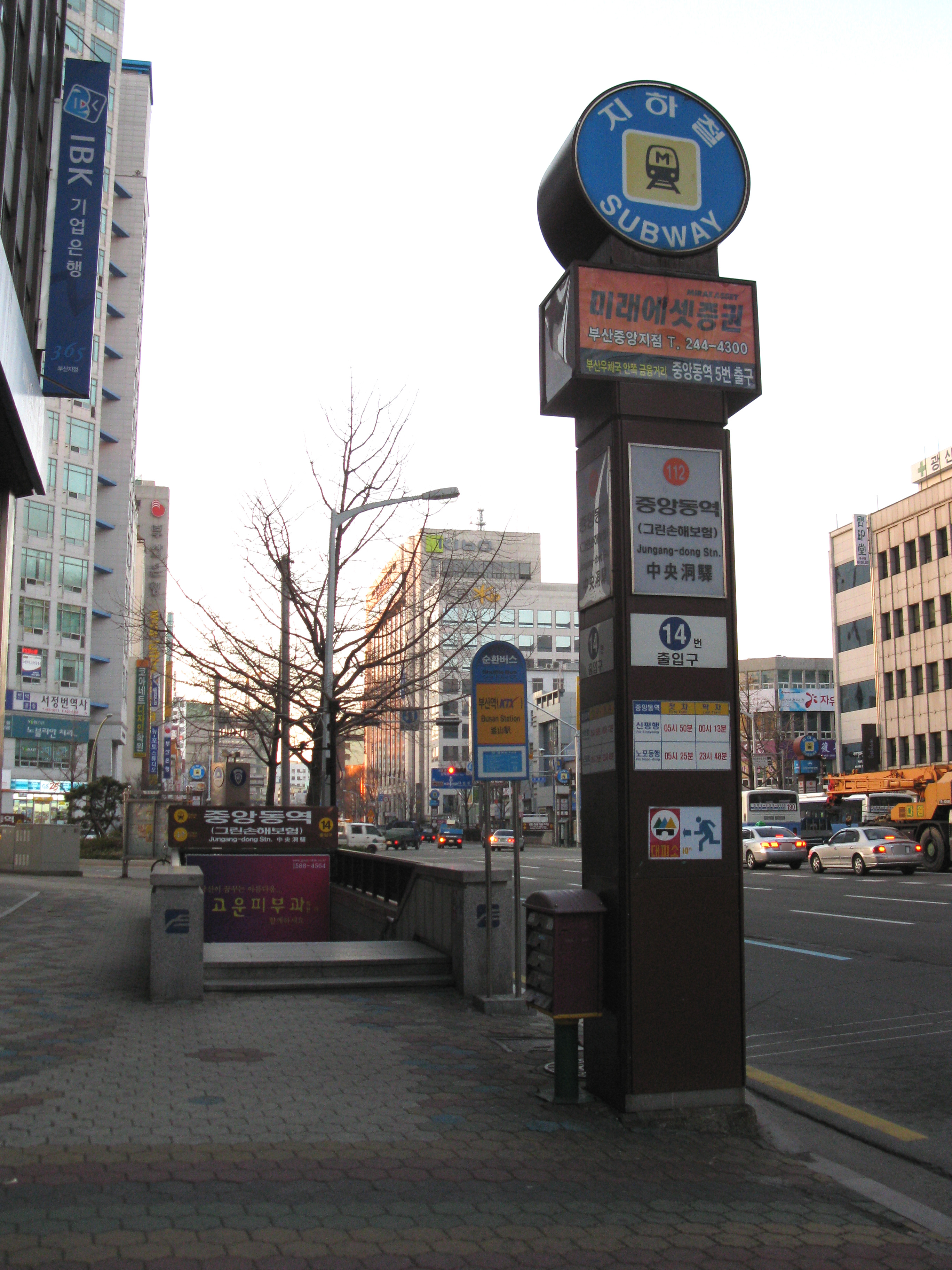 Jungang-dong Station no.14 entrance (Busan Subway Line 1)